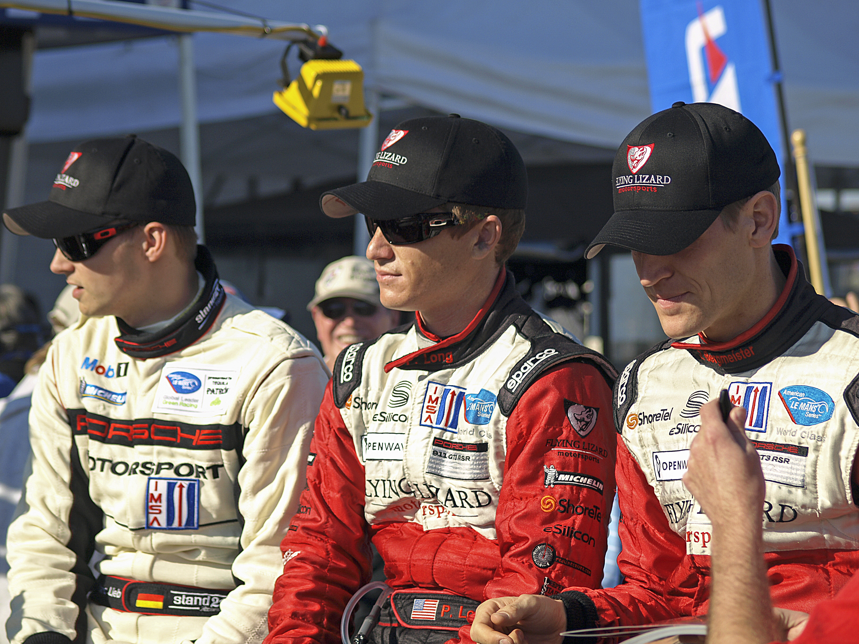 Lieb Long Bergmeister drivers for Flying Lizard Motorsport (car 45 , Porsche 911RSR)